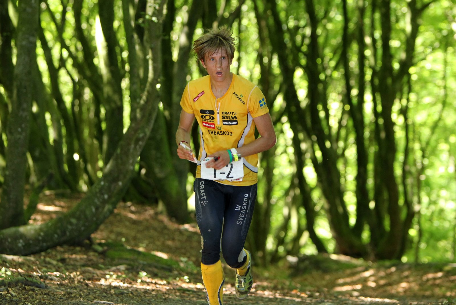 Gustav Bergman (SWE) Junior Orienteering Championships 2010